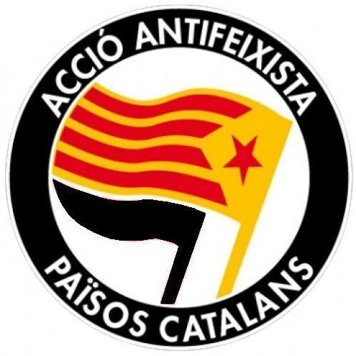 Symbol used by antifascists from the areas in Spain, France, Andorra and Italy where Catalan is spoken and the independentist movements want the creation of the Catalan countries (Països catalans)